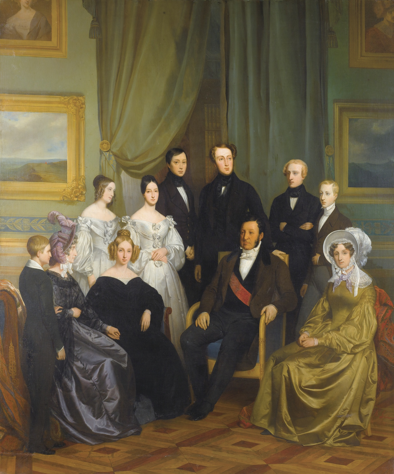 The French royal family: king Louis Philippe, queen Marie Amelie, their sons, daughters and princess Adelaide.